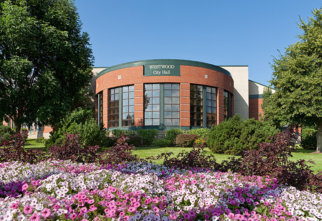 A view of Westwood City Hall from the intersection of 47th Street and Rainbow Blvd.